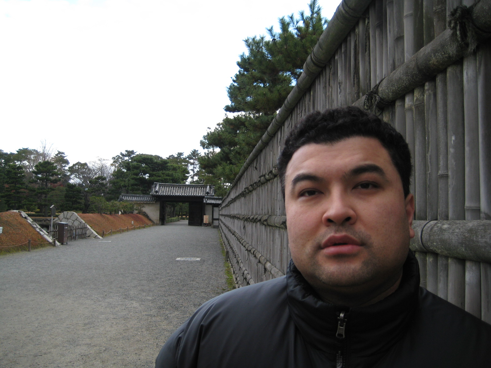 Photo of Lyrics Born (aka Tom Shimura)